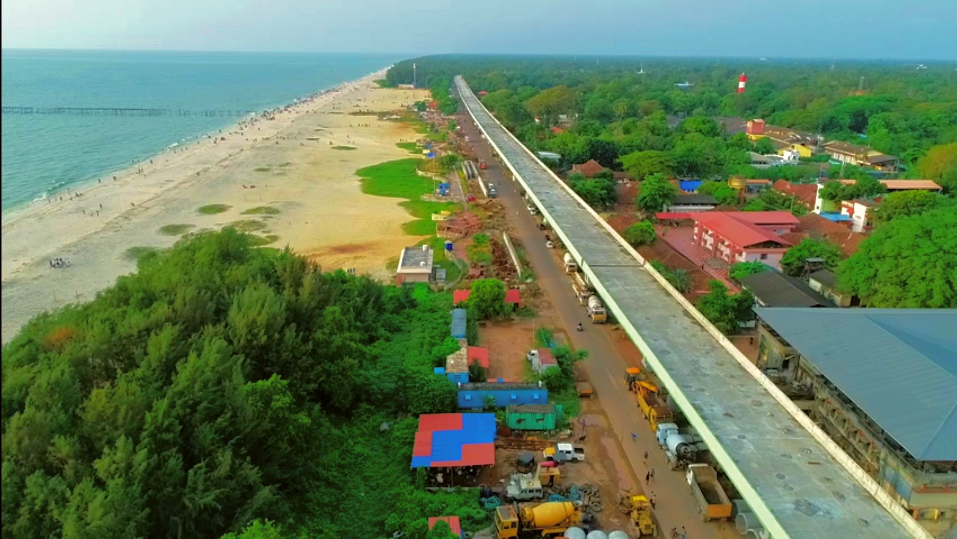 Alappuzha bypass beach side aerial view as of 2020